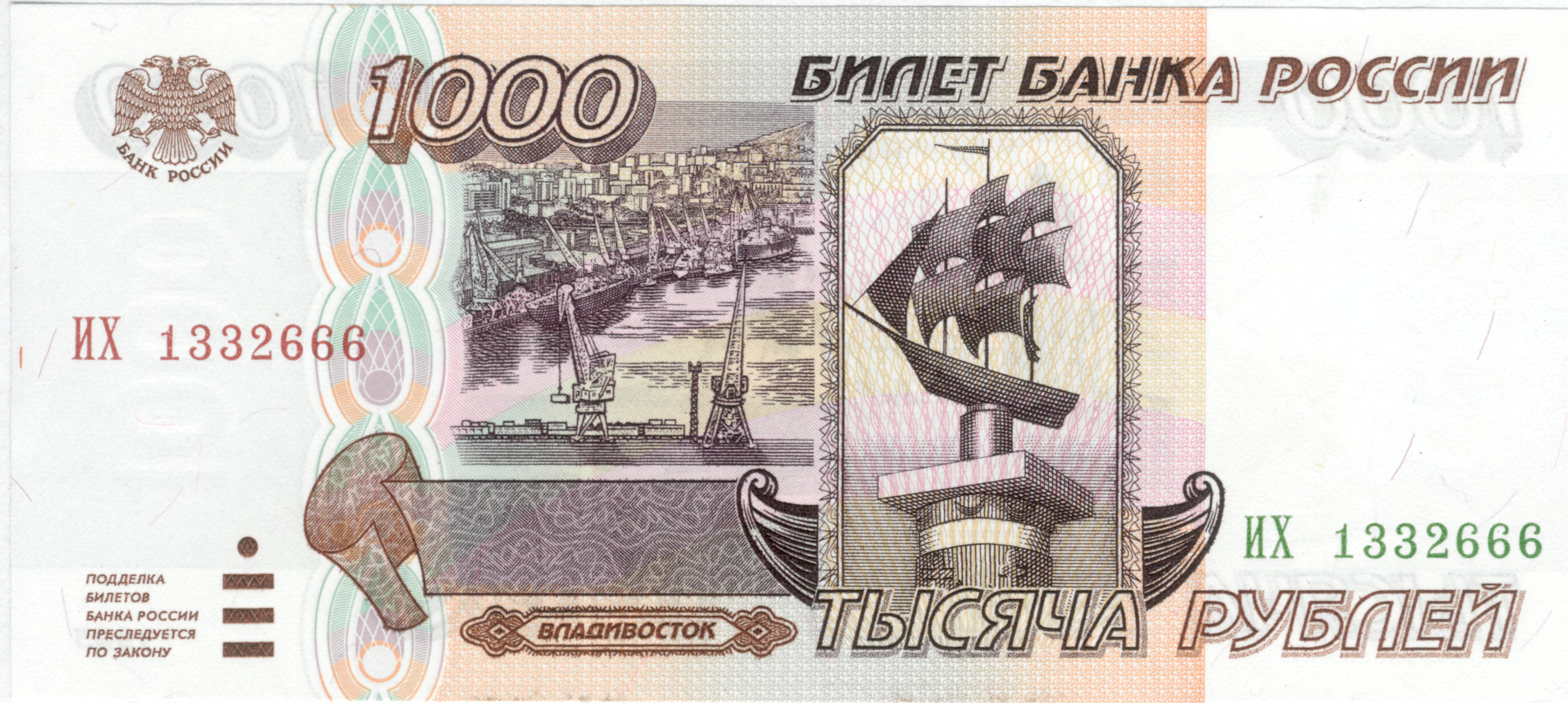 Russian banknote. 1000 rubles. Version of 1995 year. Front